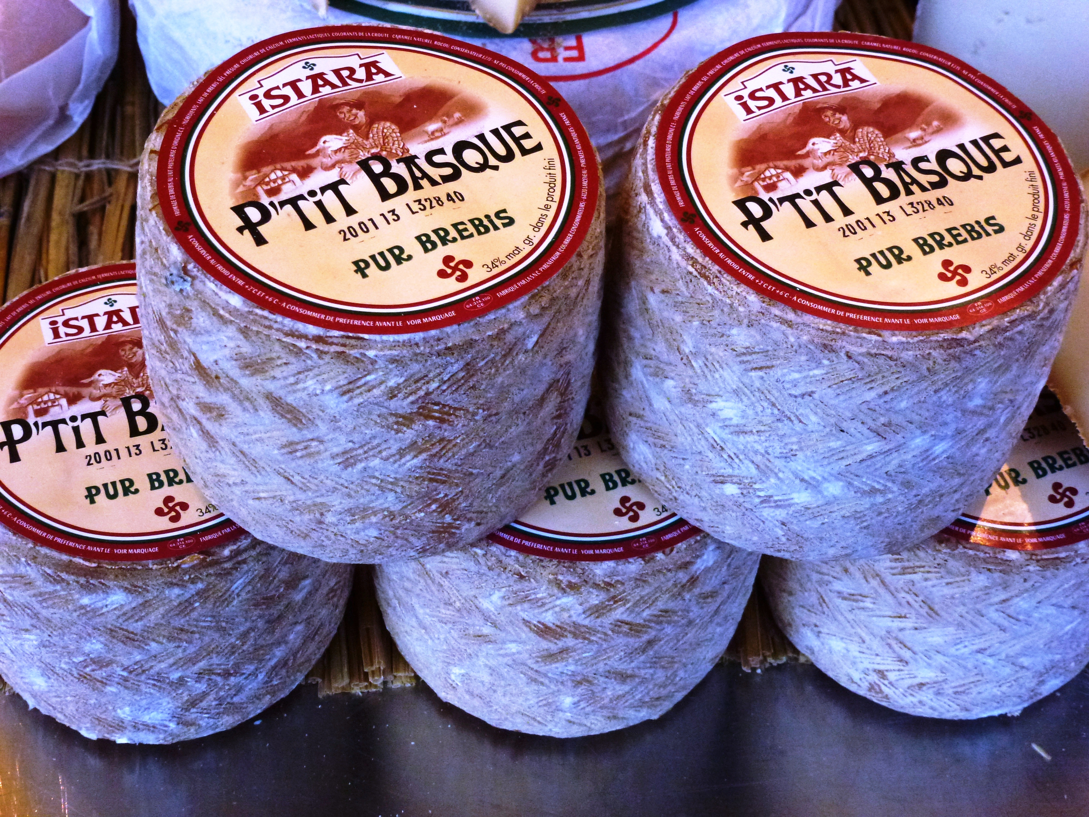 Paris, fromage Istara P'tit Basque au marché de la Bastille, Boulevard Richard Lenoir